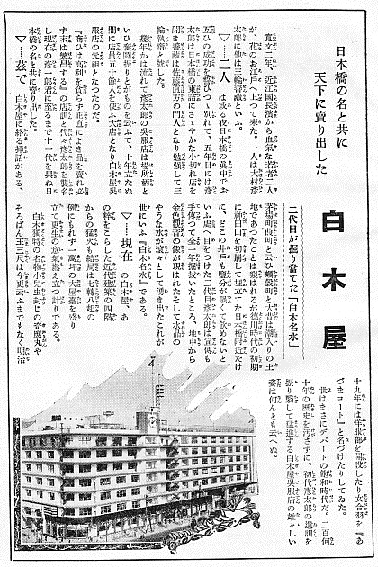 Shirokiya advertisement in 1930s